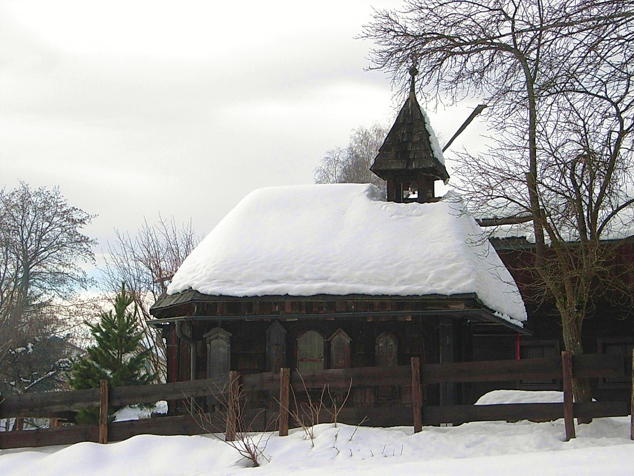 Lindberg, farmhouse museum. Wooden chapel, transferred from Hermannsried.